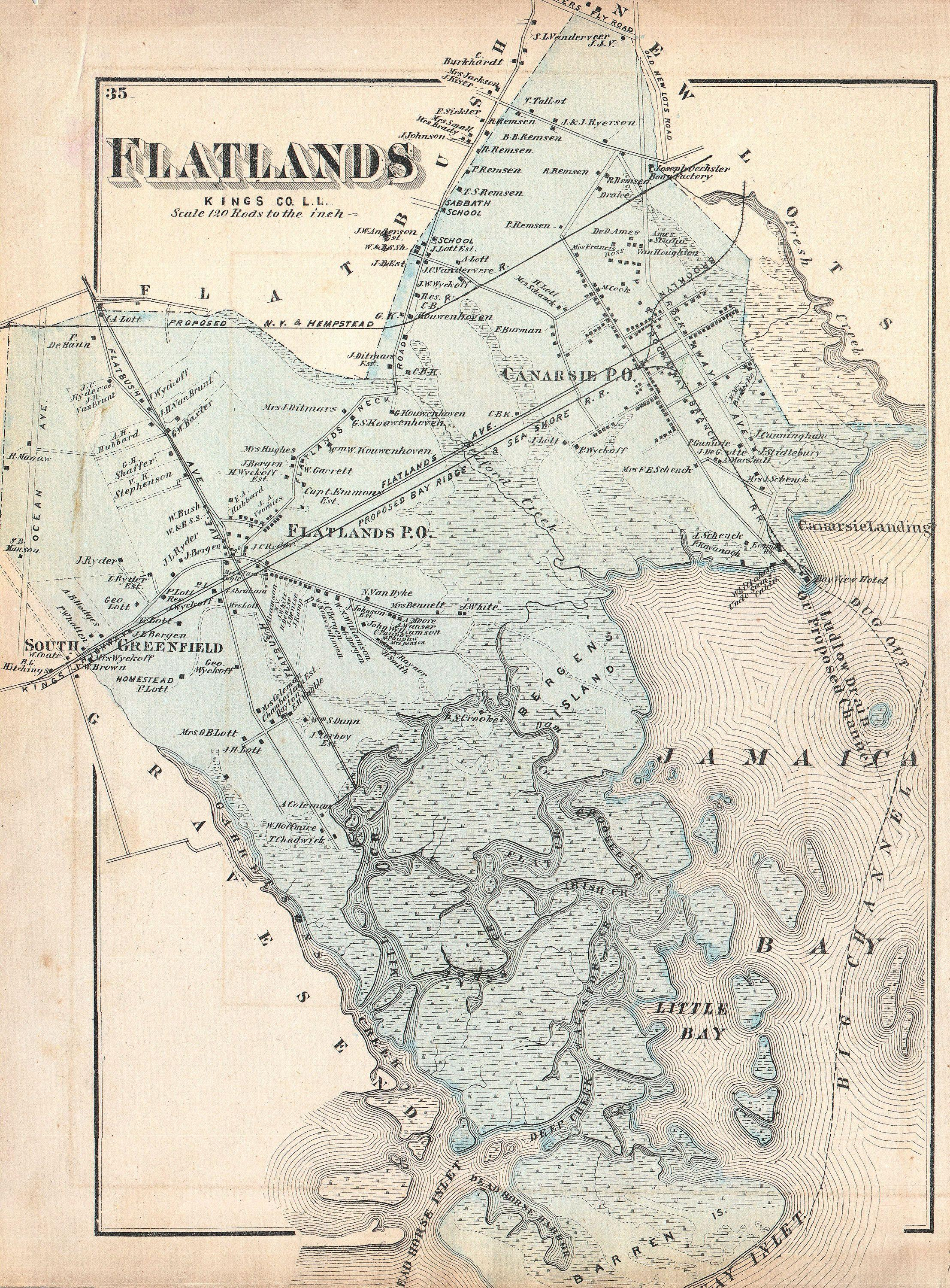 A scarce example of Fredrick W. Beers’ map parts of the region of Flatlands, Brooklyn, New York City. Published in 1873. Includes the communities of Flatlands, South Greenfield, Canarsie and Jamaica Bay. Detailed to the level of individual properties and buildings with land owners noted. This is probably the finest atlas map these Brooklyn communities to appear in the 19th century. Prepared by Beers, Comstock & Cline out of their office at 36 Vesey Street, New York City, for inclusion in the first published atlas of Long Island, the 1873 issue of Atlas of Long Island, New York.